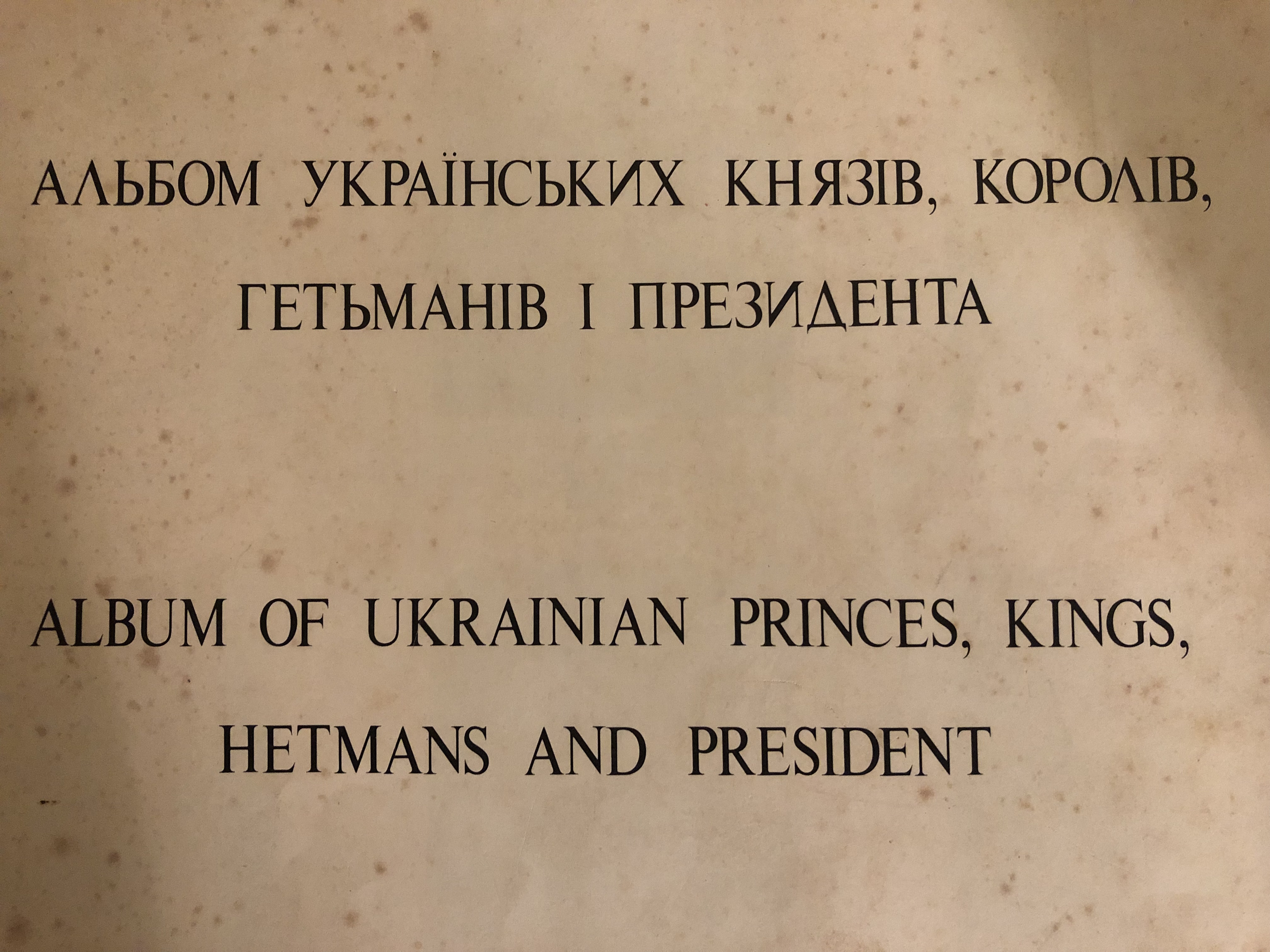 Album of Ukrainian Knyaziv, Koroliv, Hetmaniv and Presidenta